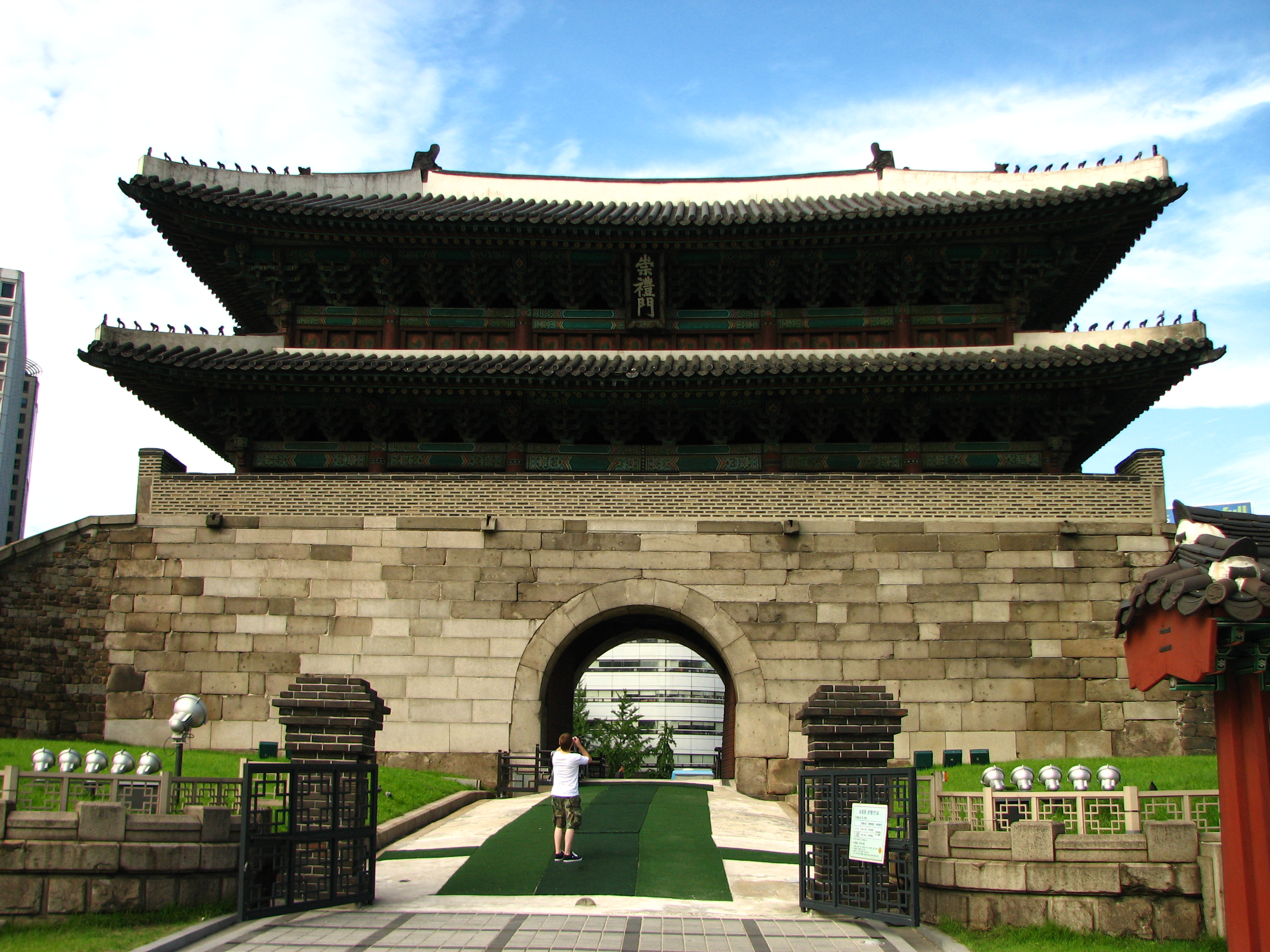 Sungnyemun or Namdaemun in South Korea Bân-lâm-gú: Tī Hân-kok ê Tsông-lé-mn̂g. 佇韓國的崇禮門